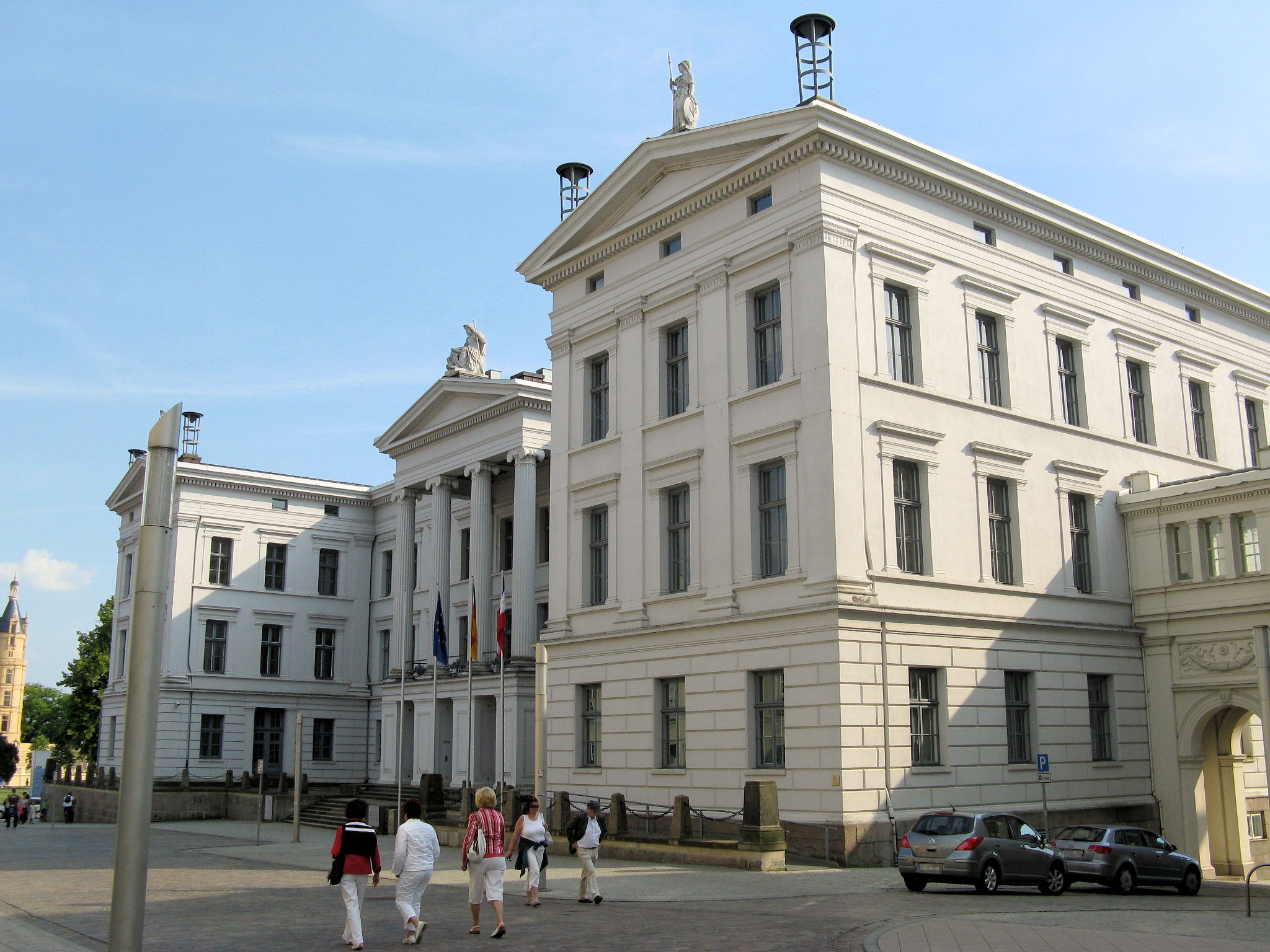 Staatskanzlei in Schwerin, Germany